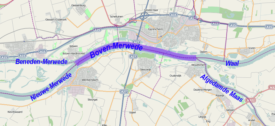 Boven-Merwede, Netherlands location map